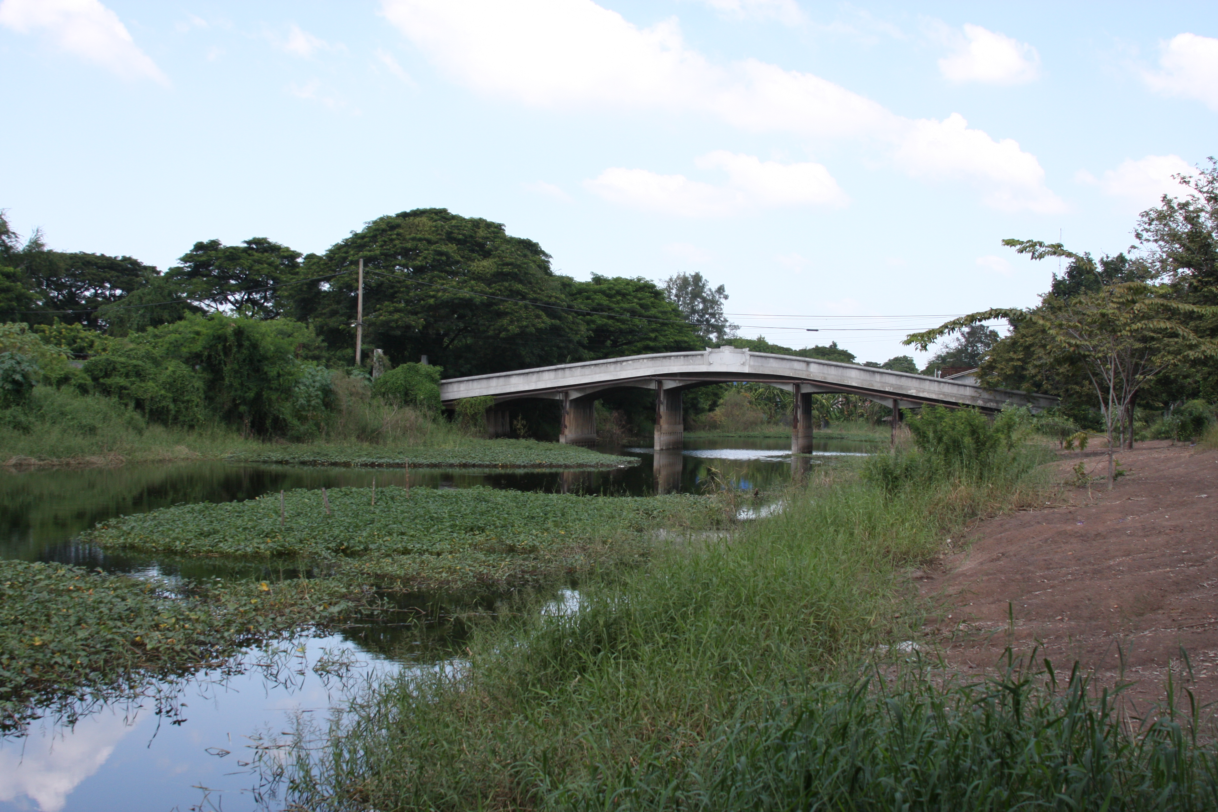 Chao Phraya River as it passes west of old Ayutthaya